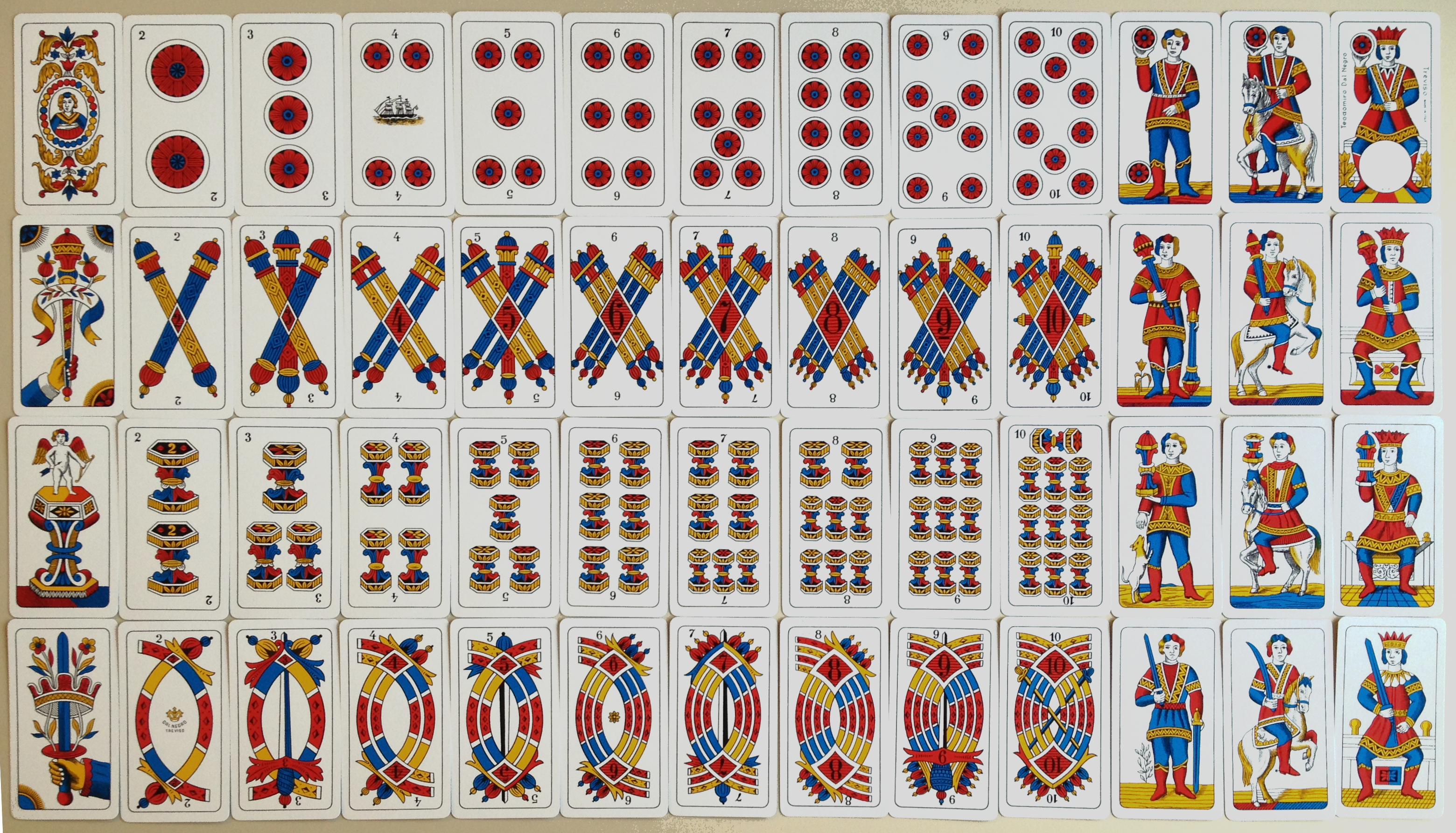 The Trentine pattern is a very archaic Italian-suited pattern of playing cards related to the Bergamo and Brescia patterns. It may originate from the 14th or 15th century. The gap between the king of coins legs is where the tax stamp was once placed. Dal Negro is the last manufacturer of the full 52-card deck which is used to play Dobellone. Dal Negro introduced some changes at the beginning of the 20th century. The clubs now their resemble Venetian and Triestine counterparts. The ribbon linking the deuce of coins and flowers that sprouted from some cups have been removed.